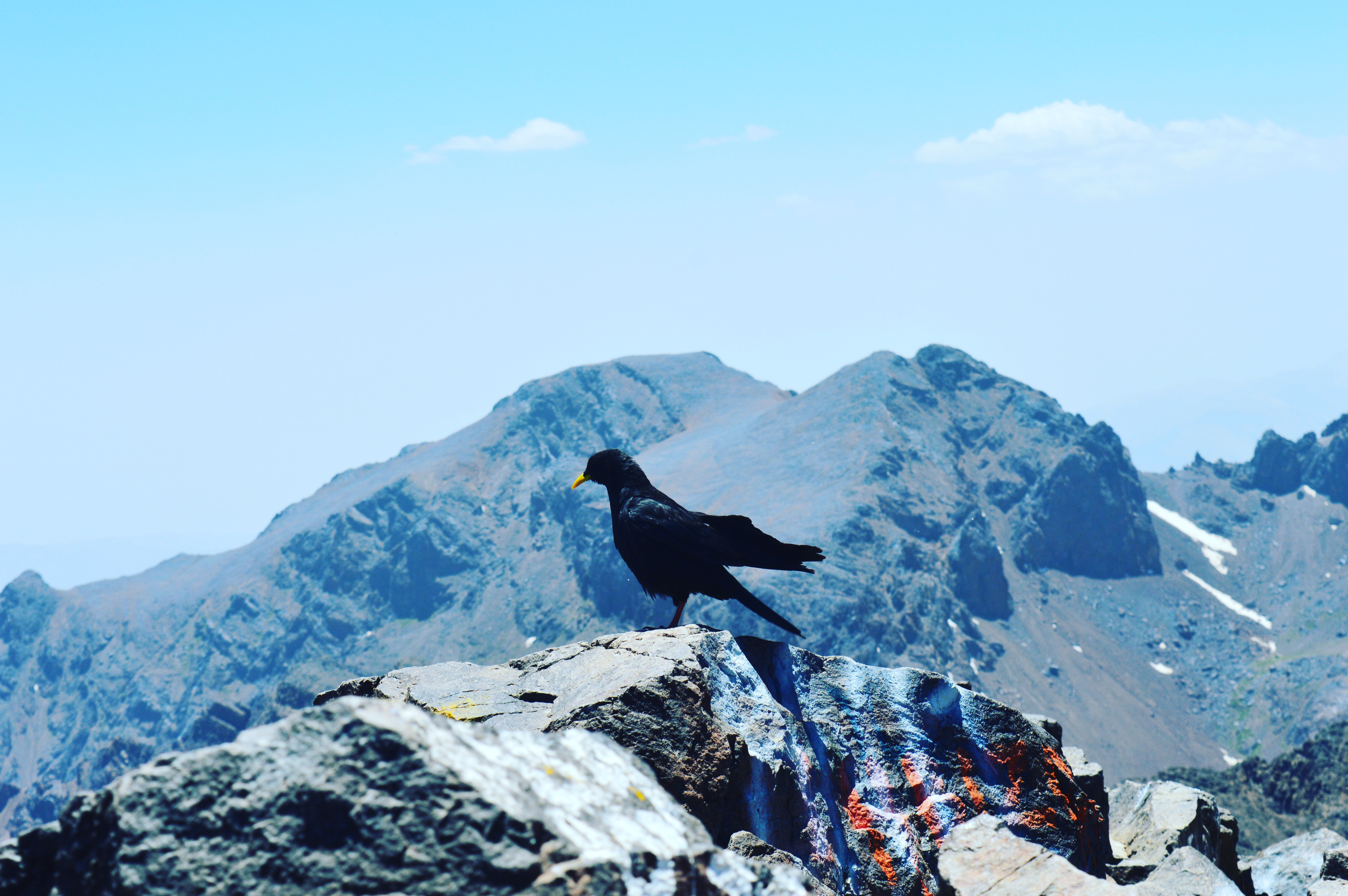 I remember meeting this bird at the summit of the highest mountain in North Africa, it was a wonderful encounter after being so tired and exhausted hiking, It represent for me the symbol of Determination, the fact that we human are not made to live beneath corners seemed to me obvious for the first time in my entire existence.